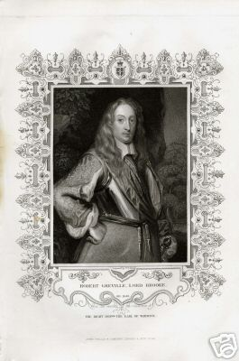 Robert Greville, 2nd Baron Brooke (1608-1643)